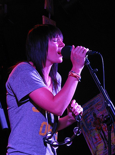 Aimee Driver in Scars on 45 performing at The Saint, Asbury Park, NJ, USA, July 2011.